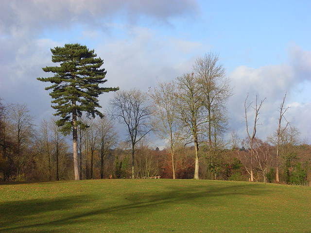 Pasture, Badgemore This field is north of the golf course and south of Lambridge Wood. There was one cow present.